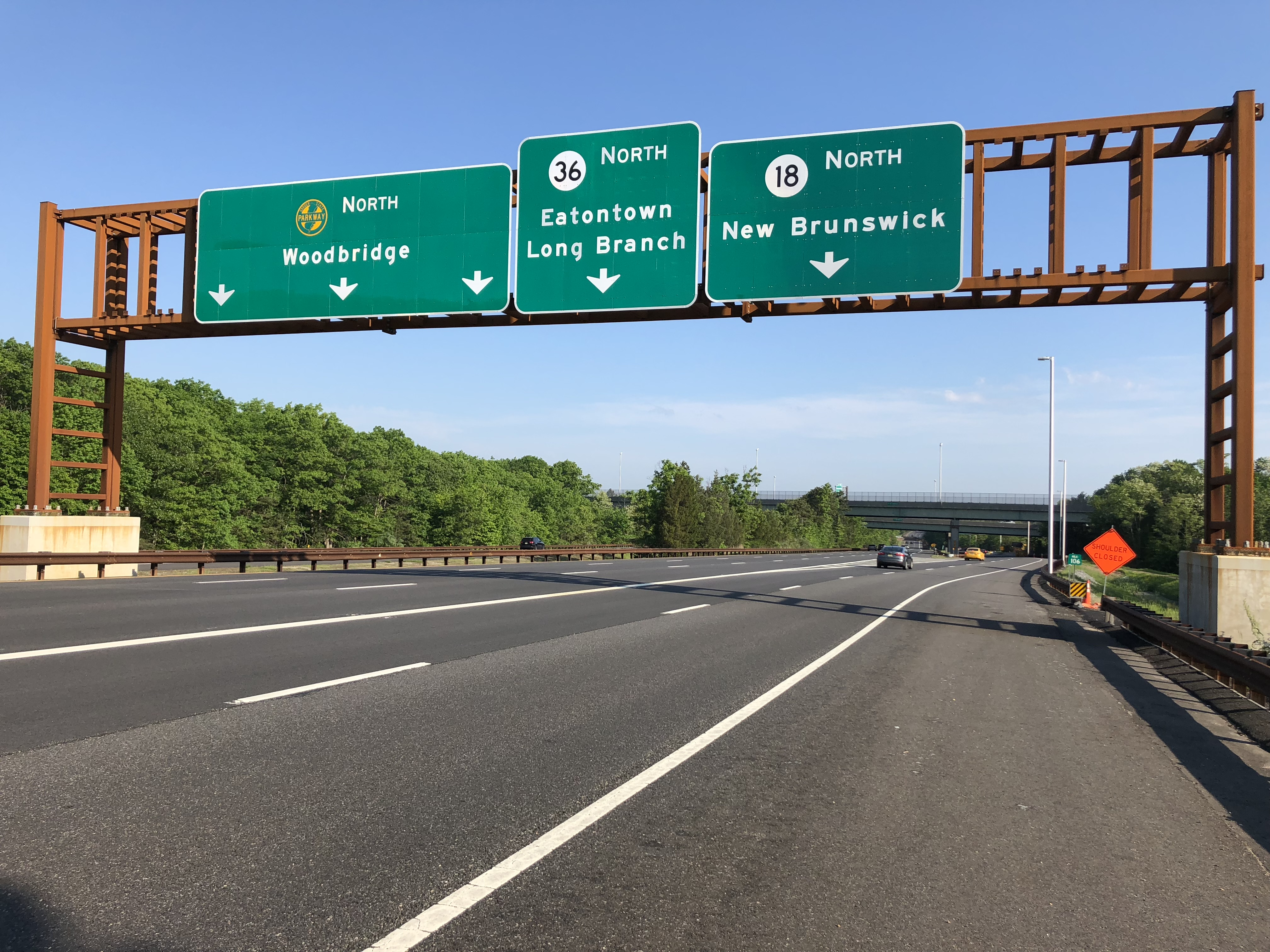 View north along New Jersey State Route 444 (Garden State Parkway) at Exit 105 (New Jersey State Route 36 NORTH, New Jersey State Route 18 NORTH, Eatontown, Long Branch, New Brunswick) in Tinton Falls, Monmouth County, New Jersey